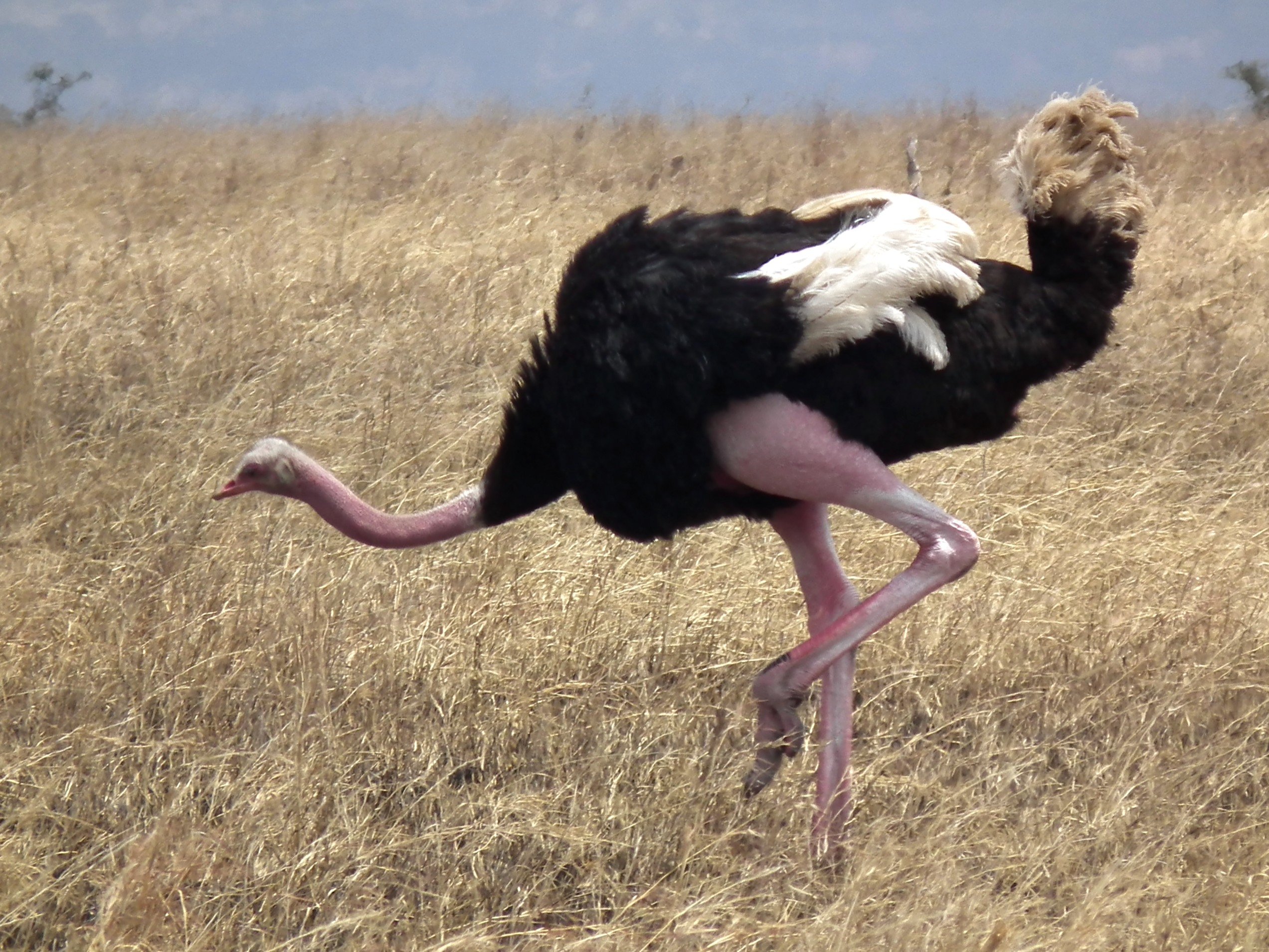 Ostrich, Struthio camelus in Tanzania